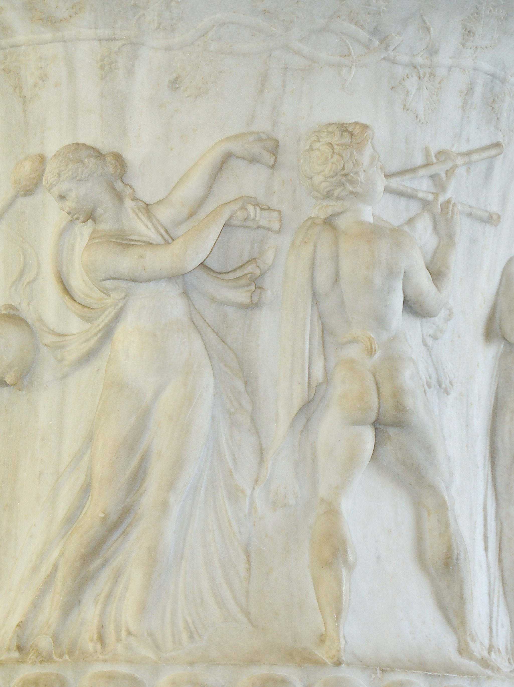 Maenad playing the crotales (left); satyr wearing a pardalis on his left shoulder and playing the aulos (right); side B from the Borghese Vase. Pentelic marble, Attic work, ca. 40–30 BC. Found in 1569 in the Horti Sallustiani, Rome.